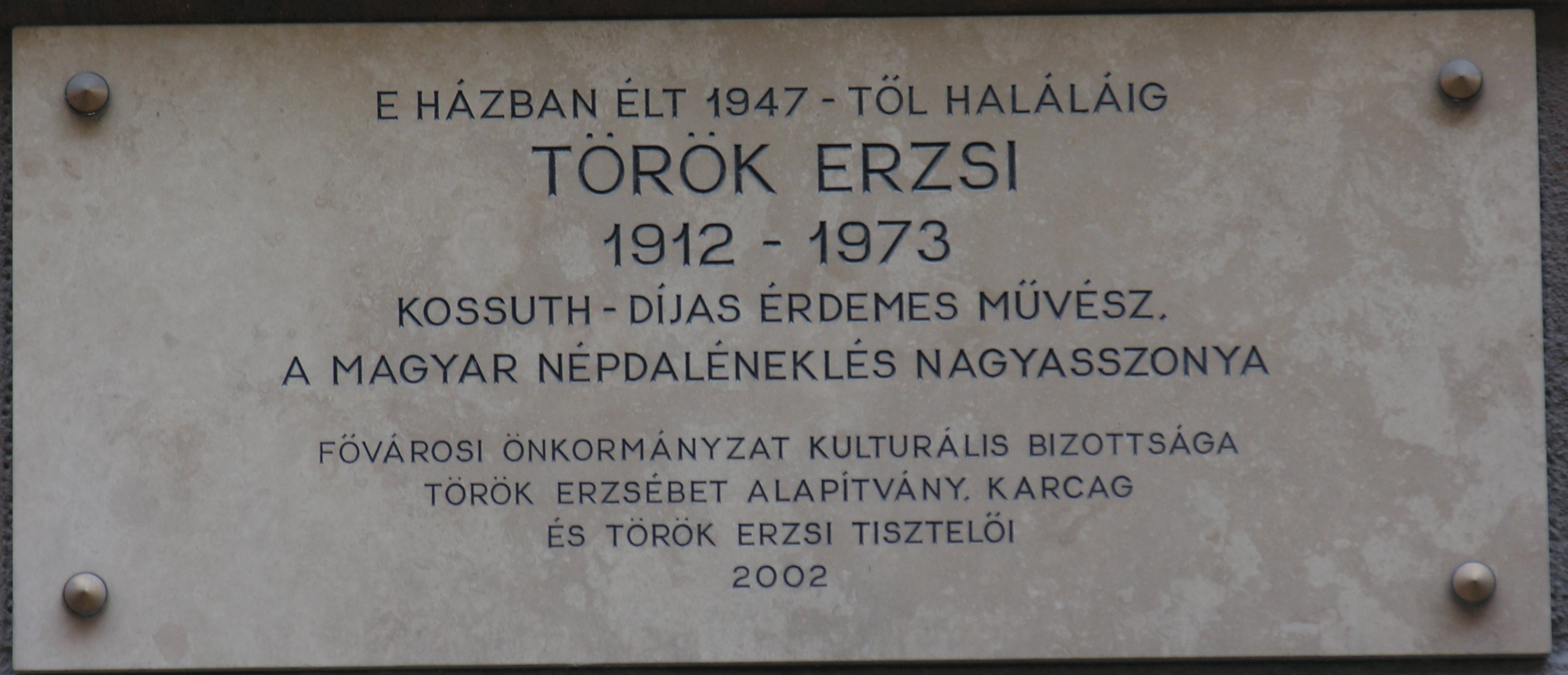 Commemorative plaque of the folk singer Erzsébet Török in Budapest District VIII, Puskin Street No 24